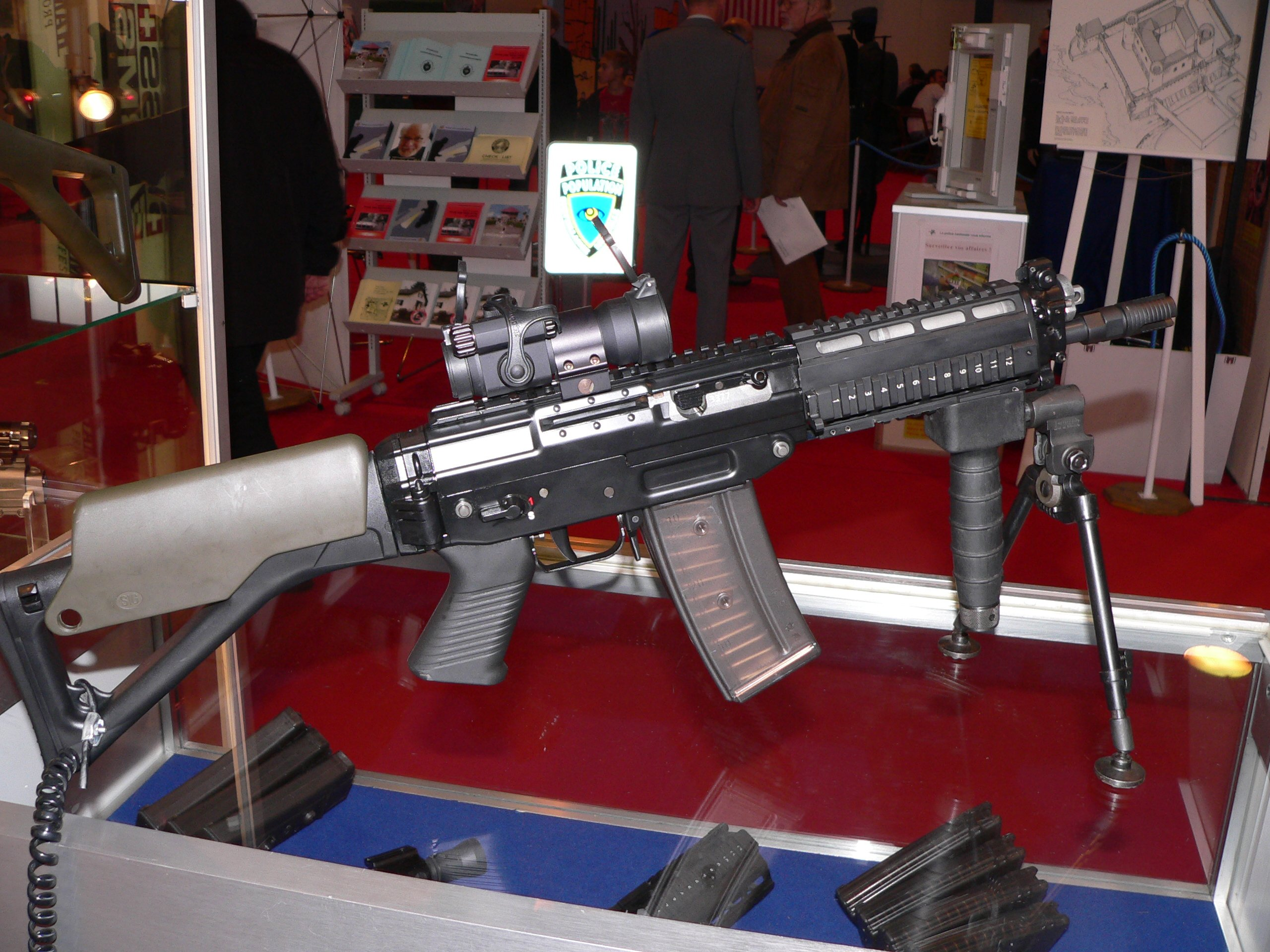 The SG 552 with integral Picatinny rail adapter and an Aimpoint red dot sight